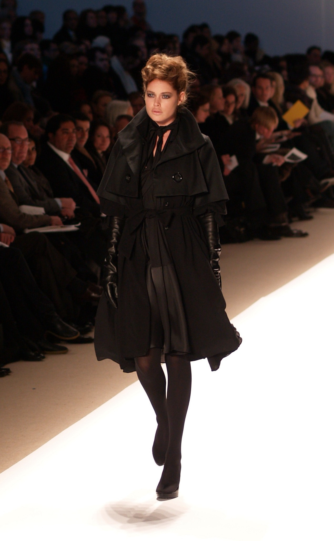 Doutzen Kroes modeling, Doo.Ri fall 2007 collection, New York Fashion Week